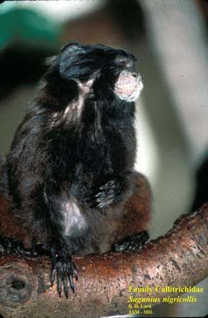 Sourced from: Originally from: Brandywine Zoo, Wilmington, Delaware, 1995. R D Lord Used with permission: You may use the requested image (#1555) from the Mammal Image Library website free of charge. Please remember to credit the photographer (R. D. Lord) and the Mammal Images Library of the American Society of Mammalogists.